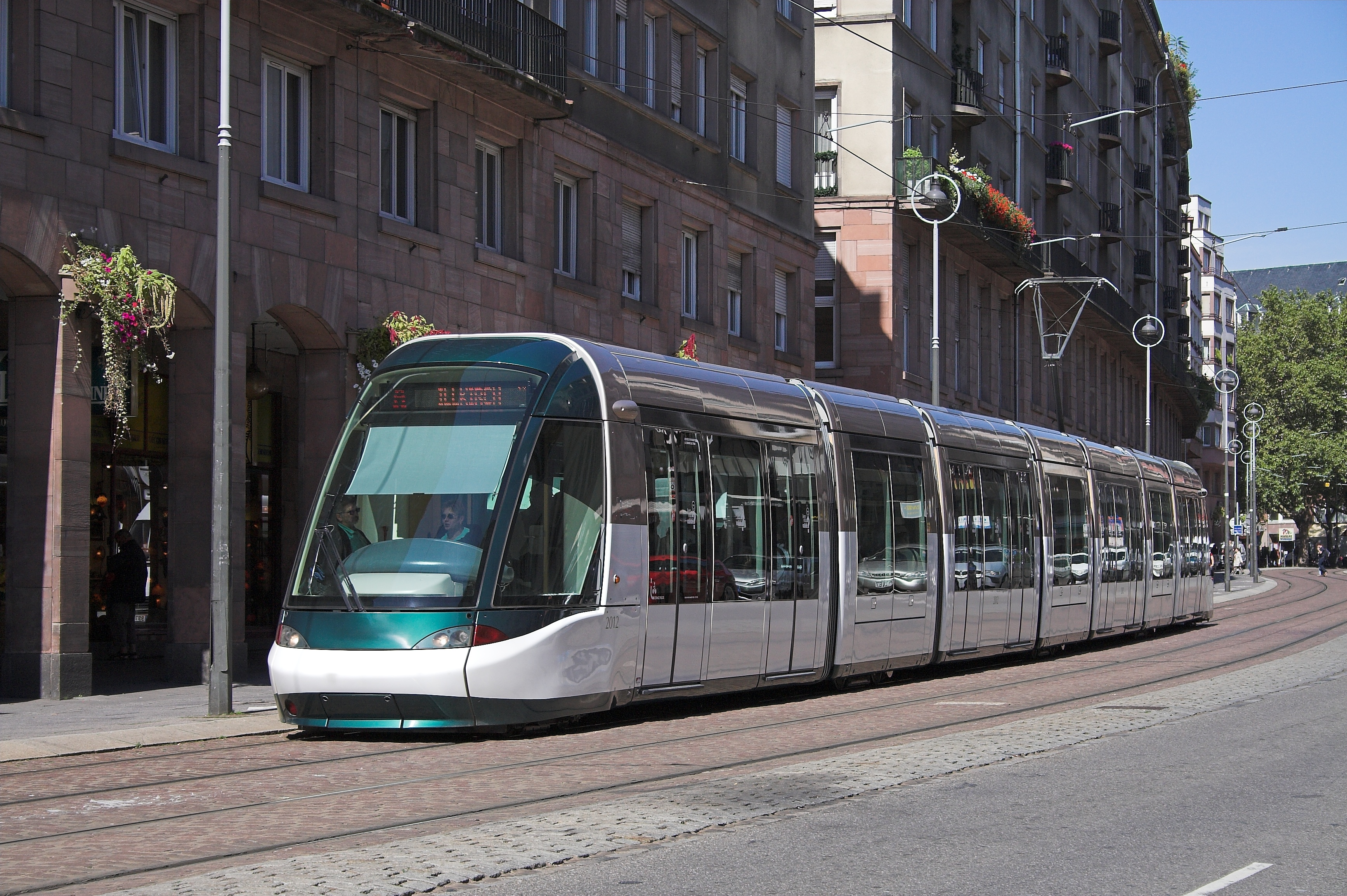 tramway of Strasbourg(Strasbourg, France)